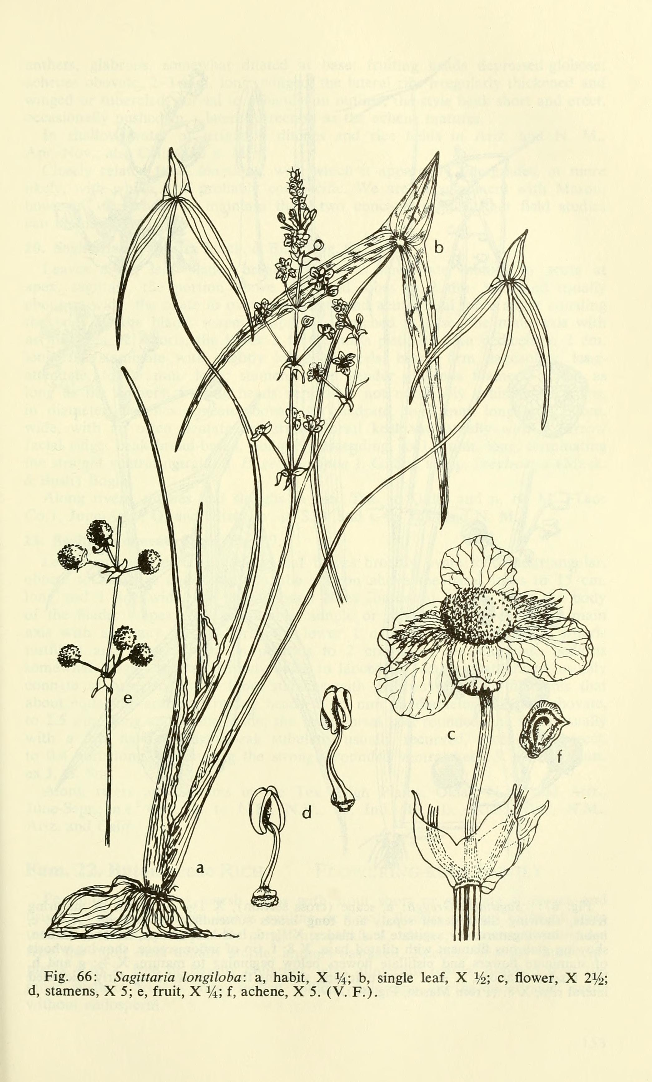 Title: Aquatic and wetland plants of southwestern United States Year: 1972 (1970s) Authors: Correll, Donovan Stewart, 1908-; Correll, Helen B Subjects: Aquatic plants -- Southwestern States; Wetland plants -- Southwestern States Publisher: [Washington Environmental Protection Agency; [For sale by the Supt. of Docs. , U. S. Govt. Print. Off. Text Appearing Before Image: ' Text Appearing After Image: Fig. 66: Sagittaria longiloba: a, habit, X %; b, single leaf, X i/^; c, flower, X 2%; d, stamens, X 5; e, fruit, X %; f, achene, X 5. (V. F.).